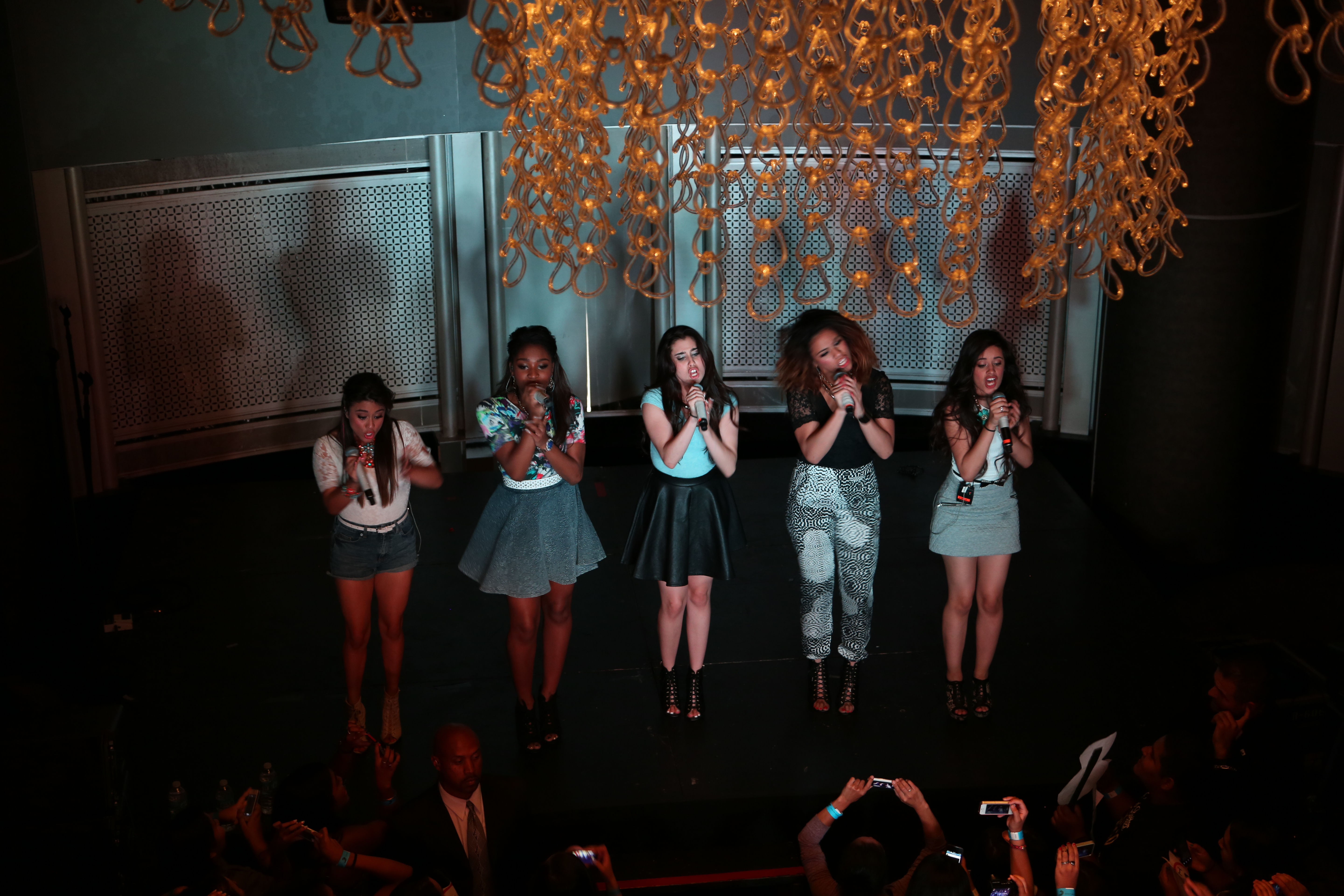 0O3A0388 Fifth Harmony at Hollywood & Highland Center